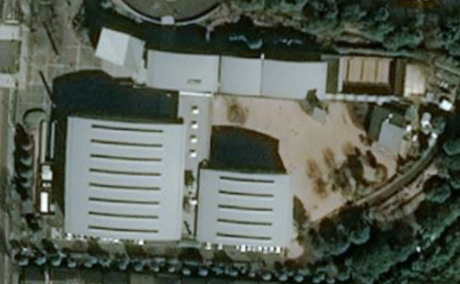 Inagi City General Gymnasium